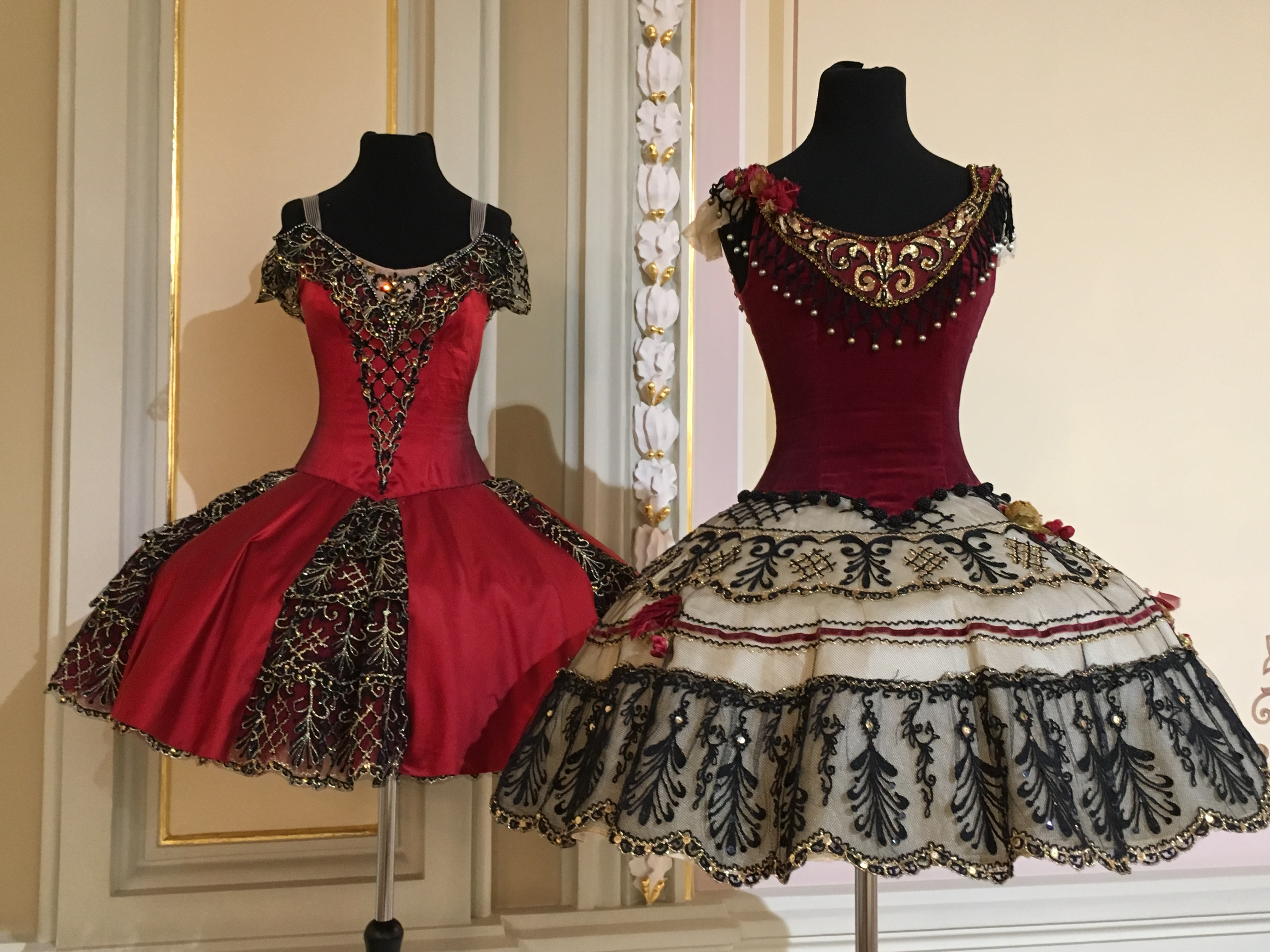 Paquita costumes, Bolshoi Theatre production